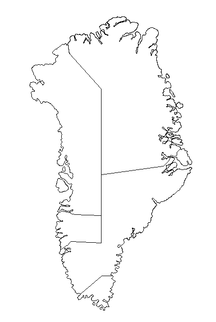 Blank map showing location of municipalities in Greenland after 1 january 2009